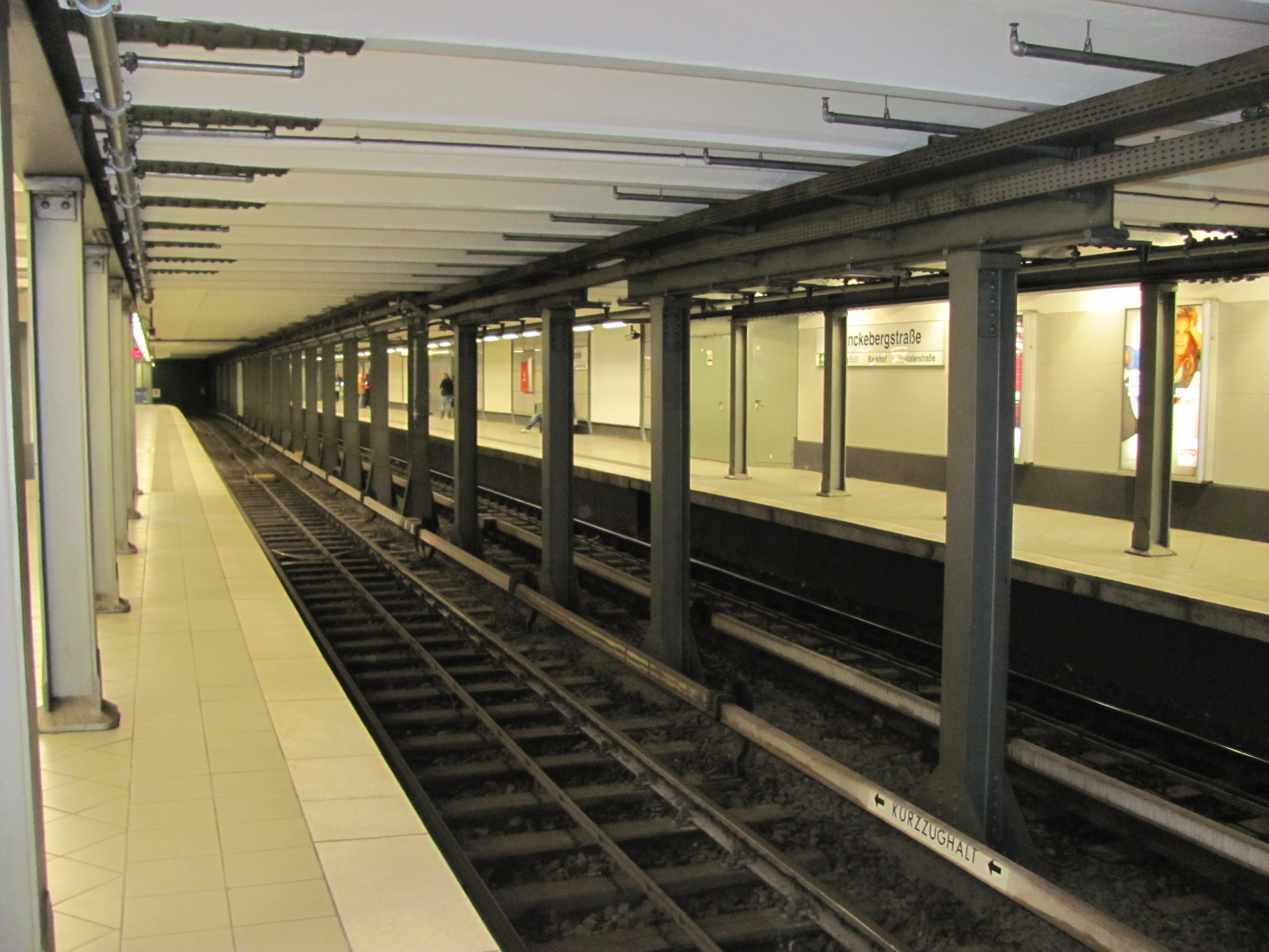 U-Bahn station Mönckebergstraße in Hamburg, Germany, January 2011